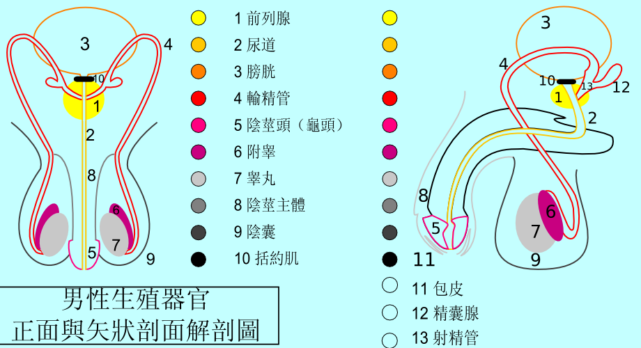 Male reproductive system, front view and sagittal section. Labeled with Chinese. (Unfortunately, Chinese in SVG are not supported in Wikimedia)